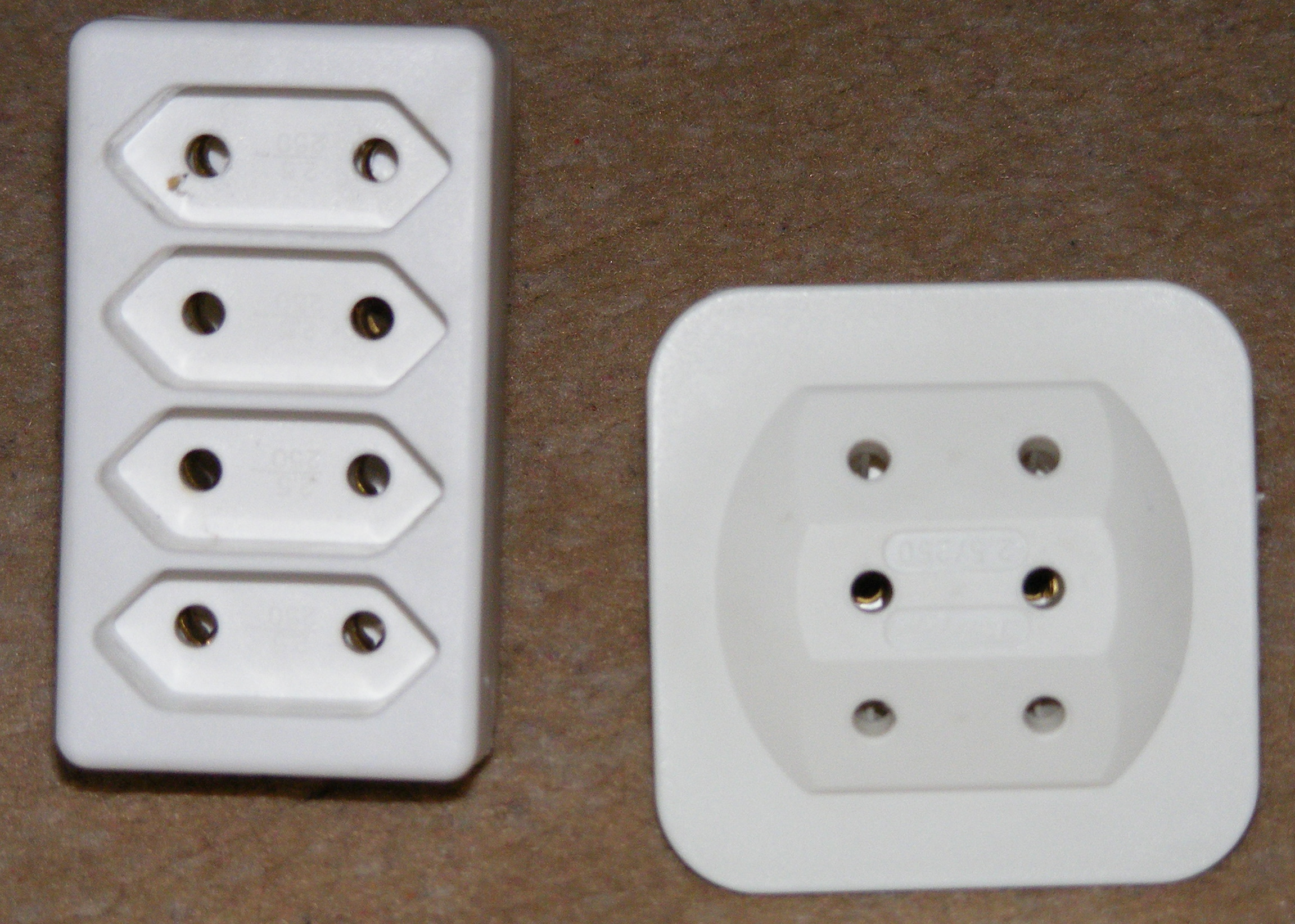 Quadruple and triple sockets fur Europlugs (CEE 7/16)